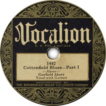 A reocord of Garfield Akers' Cottonfield Blues, issued by Vocalion Records